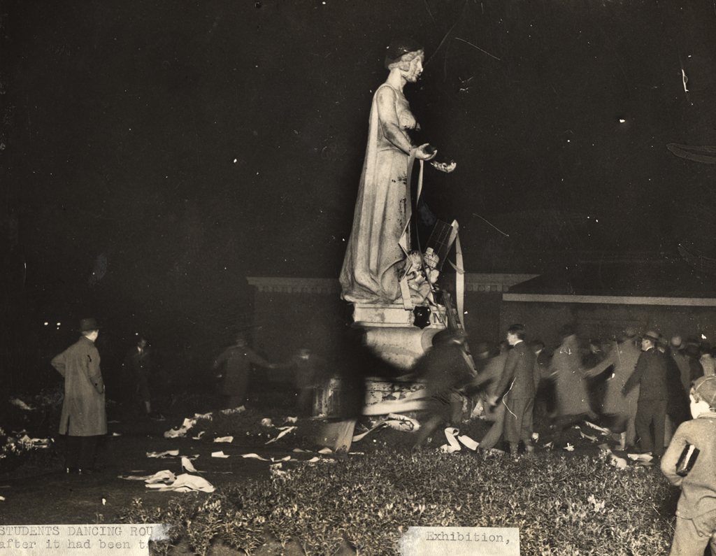 037158:Statue of Industry North East Coast Exhibition Newcastle upon Tyne Evening World 1929 Type : Photograph Medium : Print-black-and-white Description : A view of the Statue of Industry North East Coast Exhibition Newcastle upon Tyne taken in 1929. The photograph shows students dancing around the Statue of Industry after it had been tarred.Exhibitions Collection : Local Studies Printed Copy : If you would like a printed copy of this image please contact Newcastle Libraries quoting Accession Number : 037158